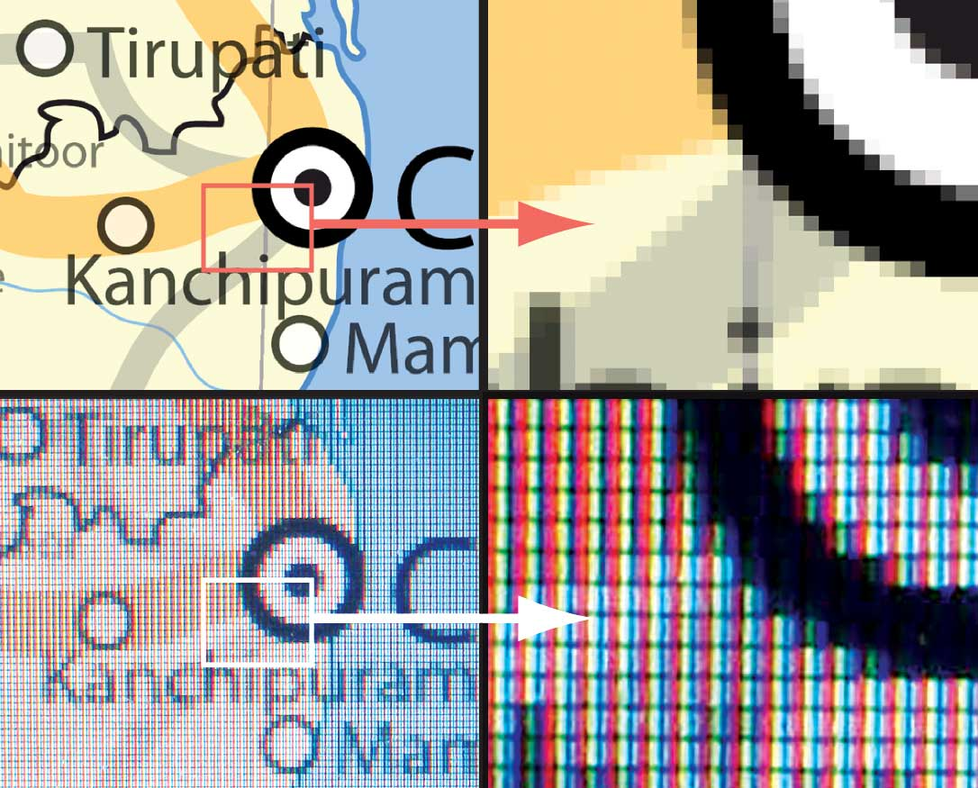 Computer images store color information in an array of pixels (top). Similiarly a display unit uses an array of pixels (each containing red, green and blue elements) to recreate the image (bottom).